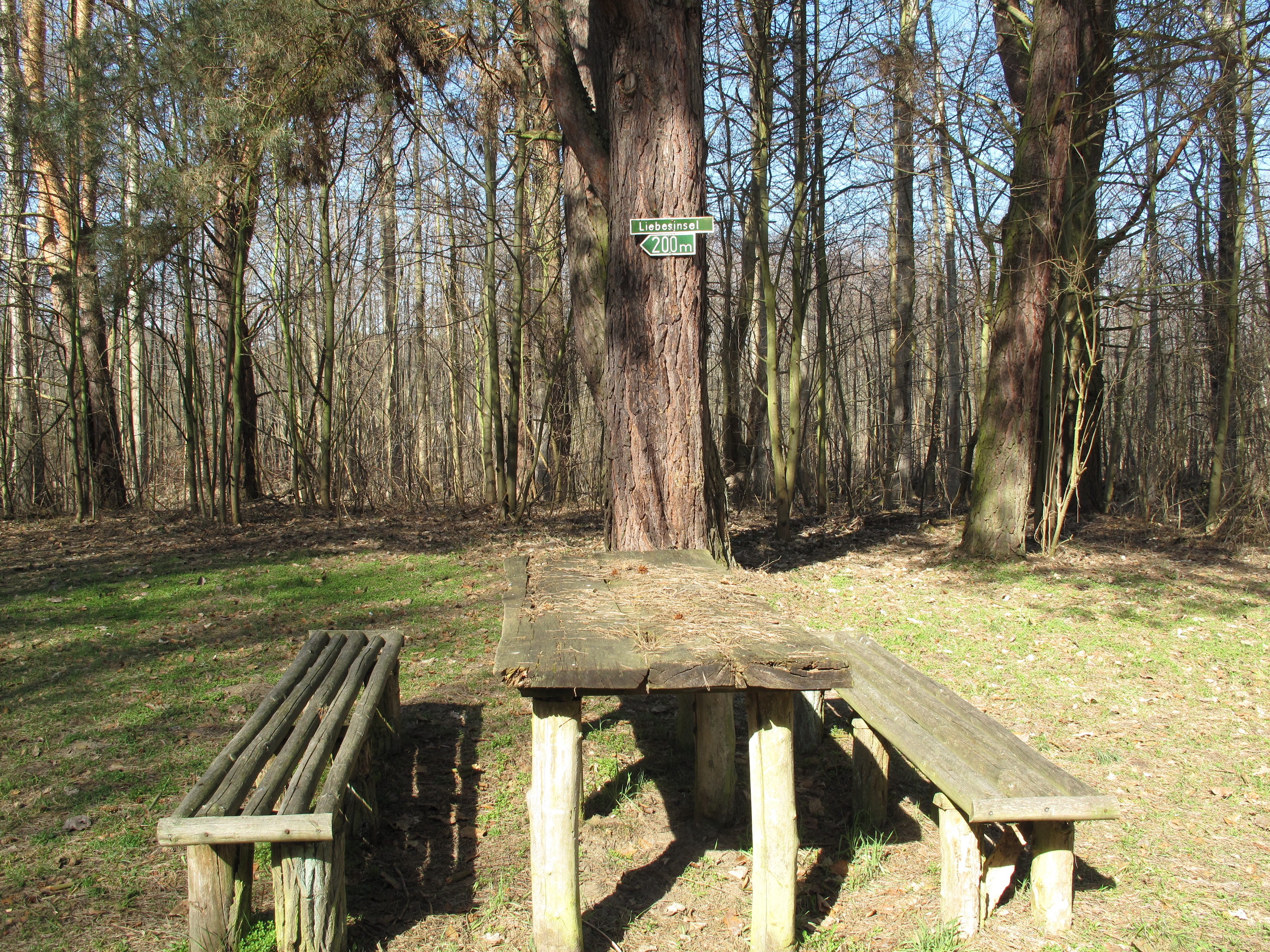 Plateau of the Liebesinsel (land spit) over the western bank of the Weiße See. The Weißer See (german for: white lake) is a lake in Buckow, District Märkisch-Oderland, Brandenburg, Germany. The lake covers 5,8 hectare and has a depth of max. 3,5 meters. Separated by a small land spit the lake borders to the southeastern bay of the Schermützelsee. The lake is situated in the hill country „Märkische Schweiz“ and in the Märkische Schweiz Nature Park.